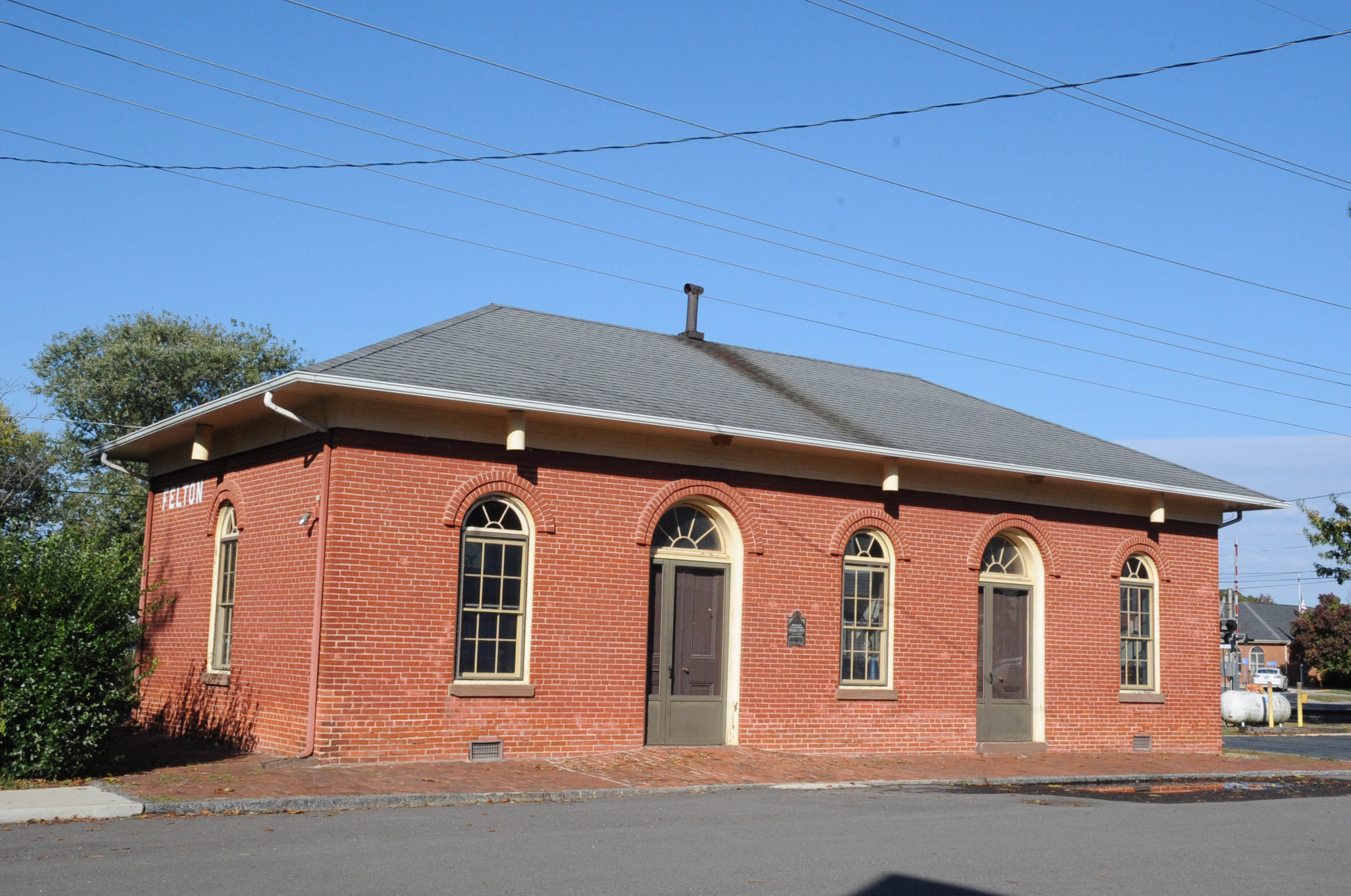 BUILDING WAS BUILT IN 1868 AS A STOP ON THE DELAWARE RAILROAD WHICH RAN FROM AROUN D NEW CASTLE TO THE SOUTHERN BORDER OF THE STATE. PASSENGER SERVICE CEASED IN THE 1950’S BUT THE BUILDING HAS BEEN RESTORED